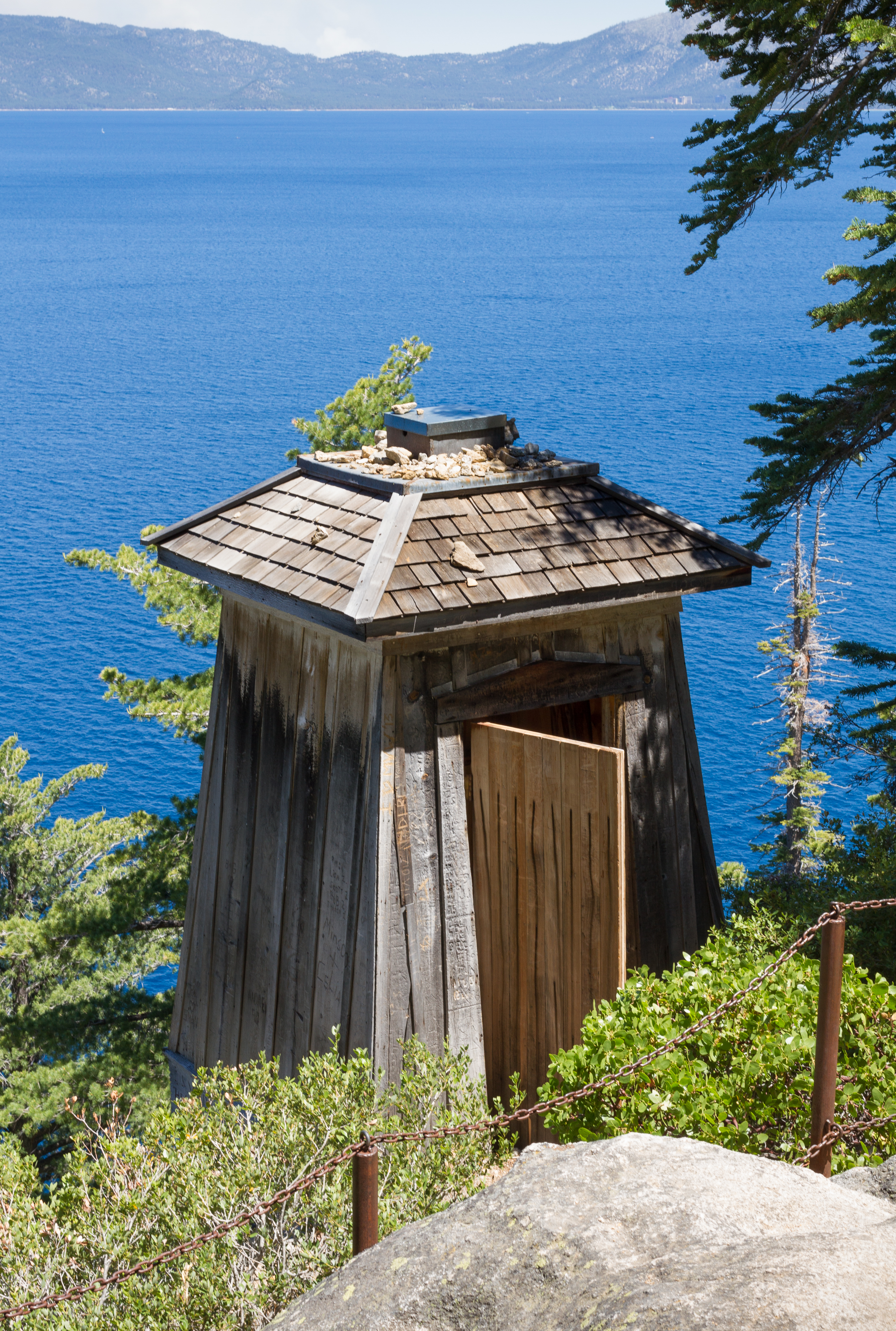 Rubicon Point Light, Lake Tahoe, California